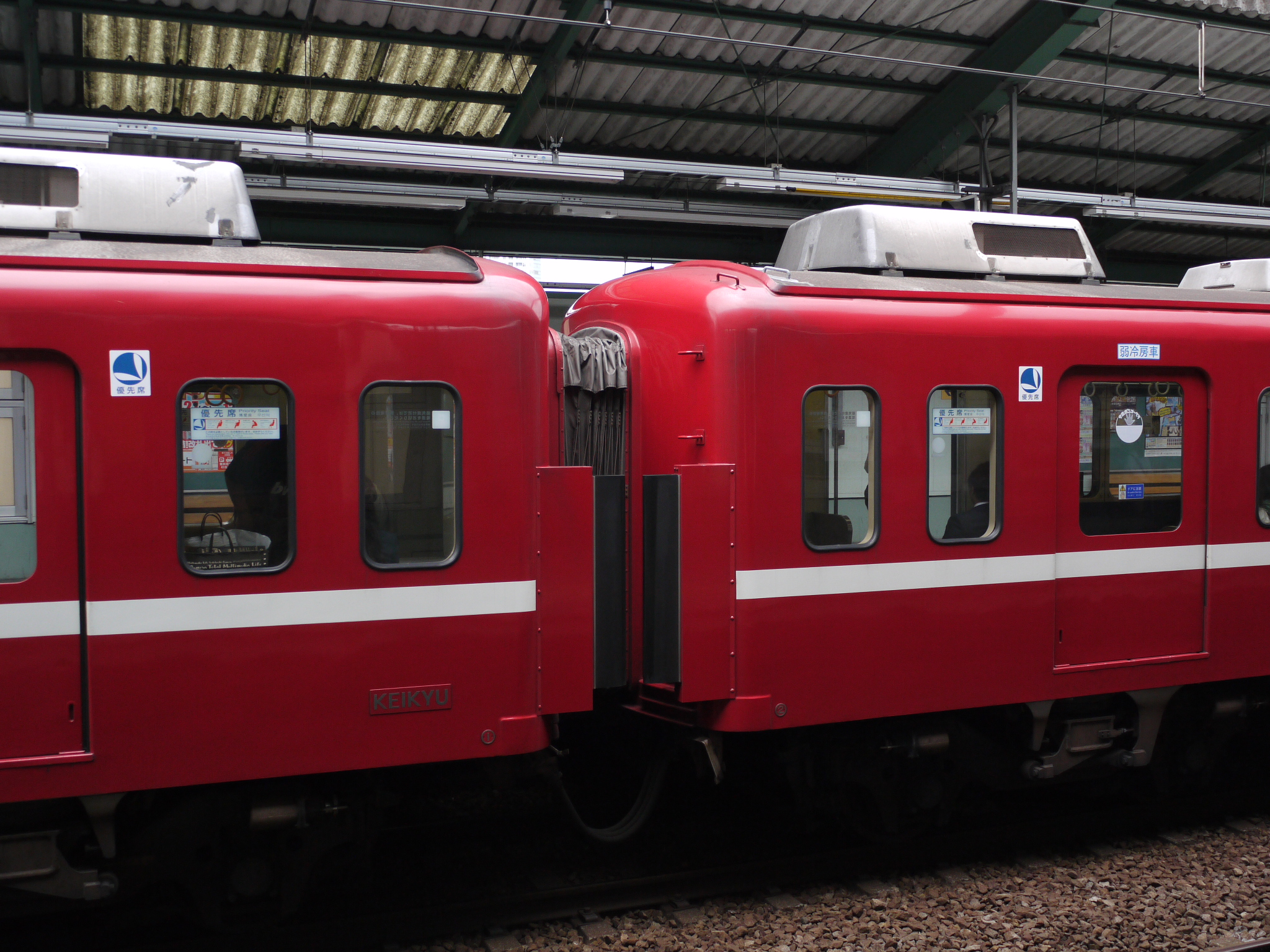 Connection between Keikyu 805-3 and 806-1 at Shimbamba station